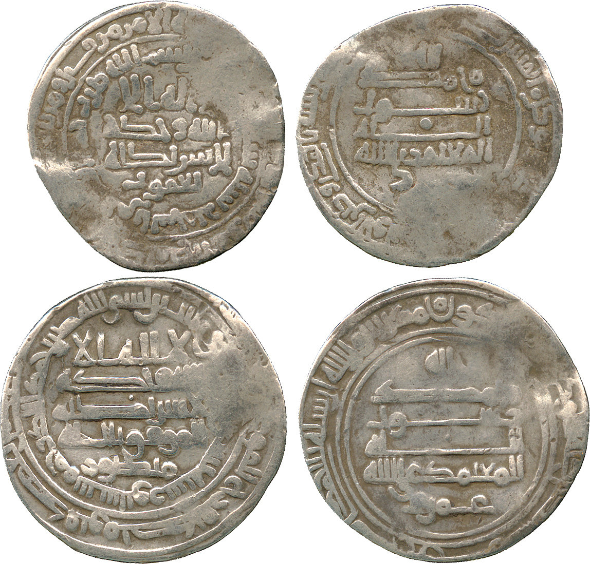 ISLAMIC COINS, SAFFARID (FIRST DYNASTY), Ya'qub al-Layth (247-265h), Silver Dirham, al-Banjhir 260h, 3.11g; 'Amr b. al-Layth/Mansur, Silver Dirham, Naysabur 269h, 3.87g. Both good fine, the second rare.